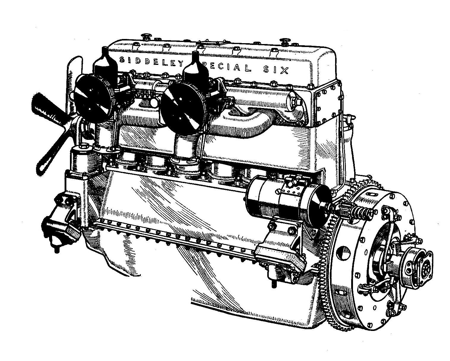 An Engine in Hiduminium Where expense is a minor consideration, power units such as the big six-cylinder Siddeley Special can be produced. The whole engine structure is of Hiduminium, and it is interesting to notice that in this case there are four main castings: cylinder head, block, and upper and lower crankcase halves. Hardened steel liners are used in conjunction with Hiduminium pistons.